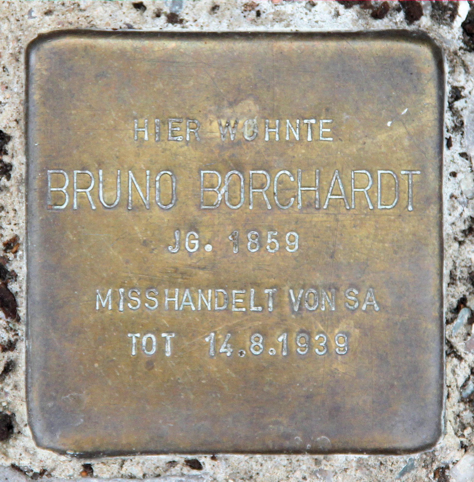 "stumbling block", Bruno Borchardt, Lenther Steig 19, Berlin-Siemensstadt, Germany Koordinate:52°32′27″N 13°16′1″E / 52.54083°N 13.26694°E